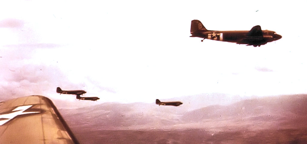 441st Troop Carrier Group 91st TCS C-47s in formation.